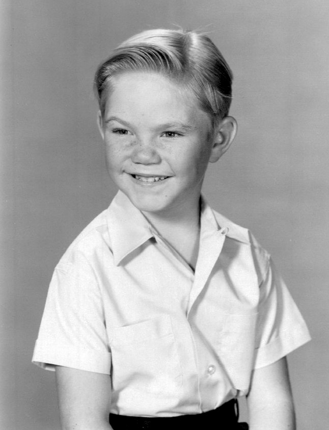 Photo of Bobby Buntrock as Harold Baxter from the television program Hazel.